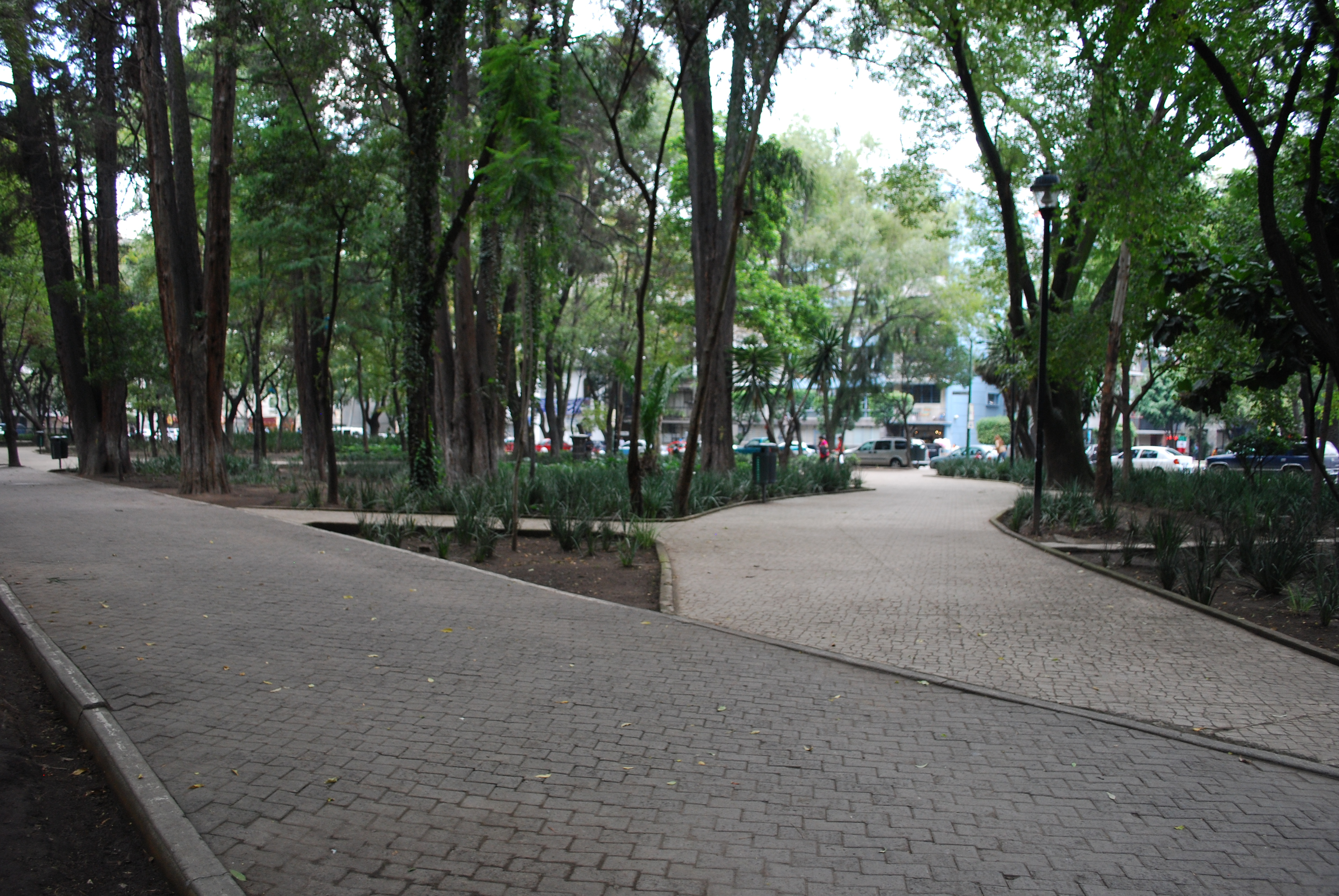 Path in Parque España in Colonia Hipodromo in Mexico City